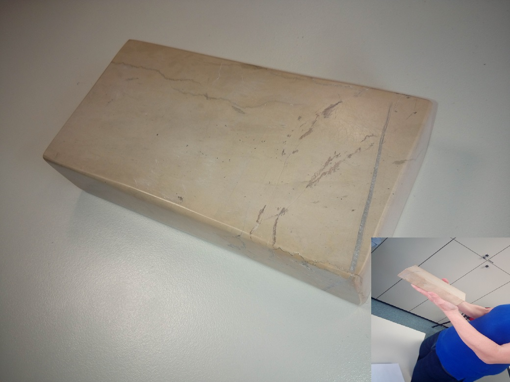 Natural and ornamental stones are mined in large volumes, which are then processed into thin plates, that can be ground and polished.